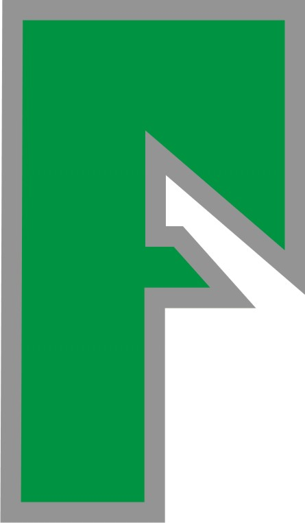 Monogram of King of Romania Ferdinand I, which is made up of the badge of the Order of Ferdinand I